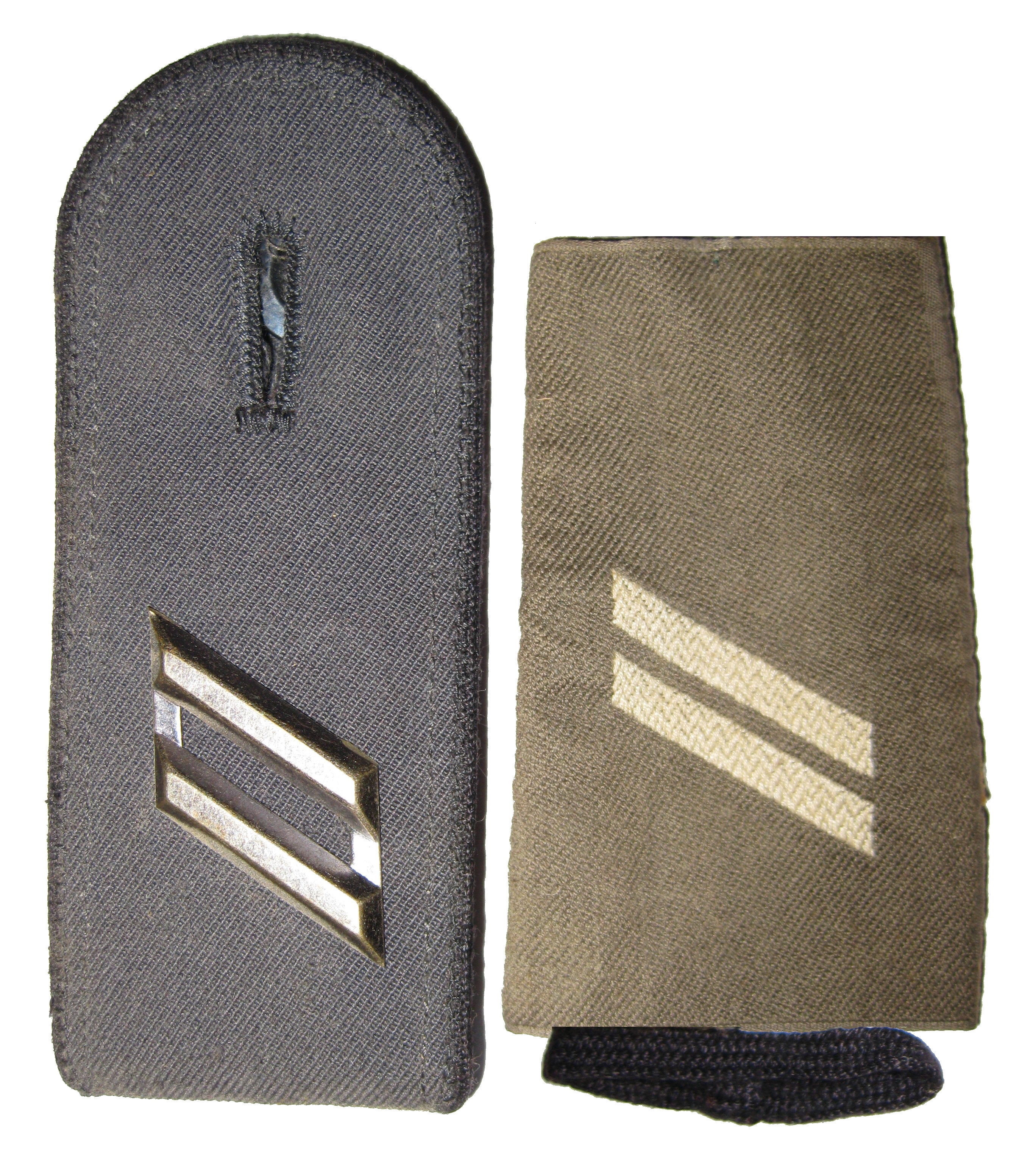 For the german Wikipedia's Fotowerkstatt. This is a retouched picture, which means that it has been digitally altered from its original version. Modifications: Original: File:Schulterklappen_OG.JPG. Altered position of the cord and removed the backround..